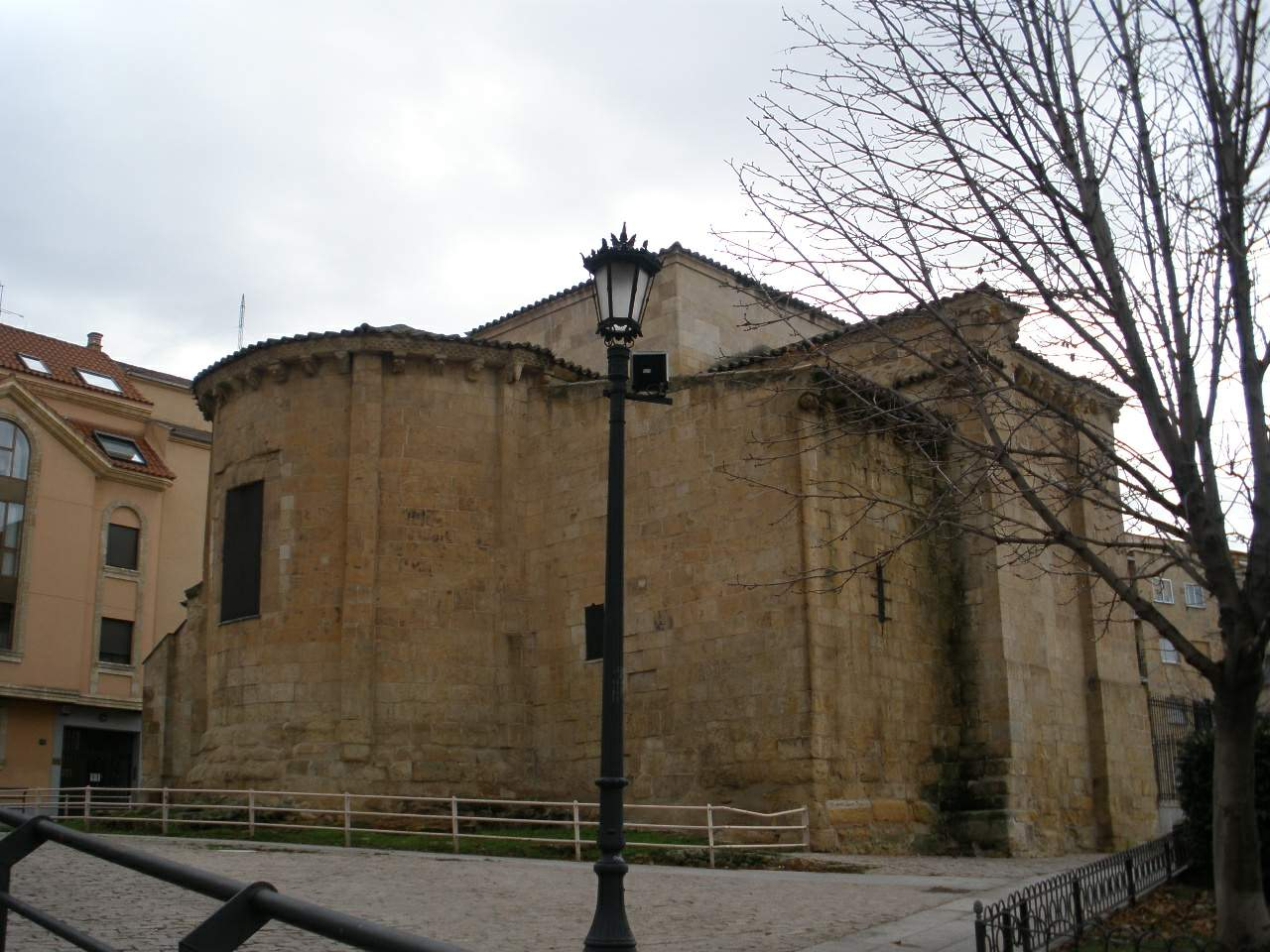 Iglesia de San Cristóbal (Salamanca)